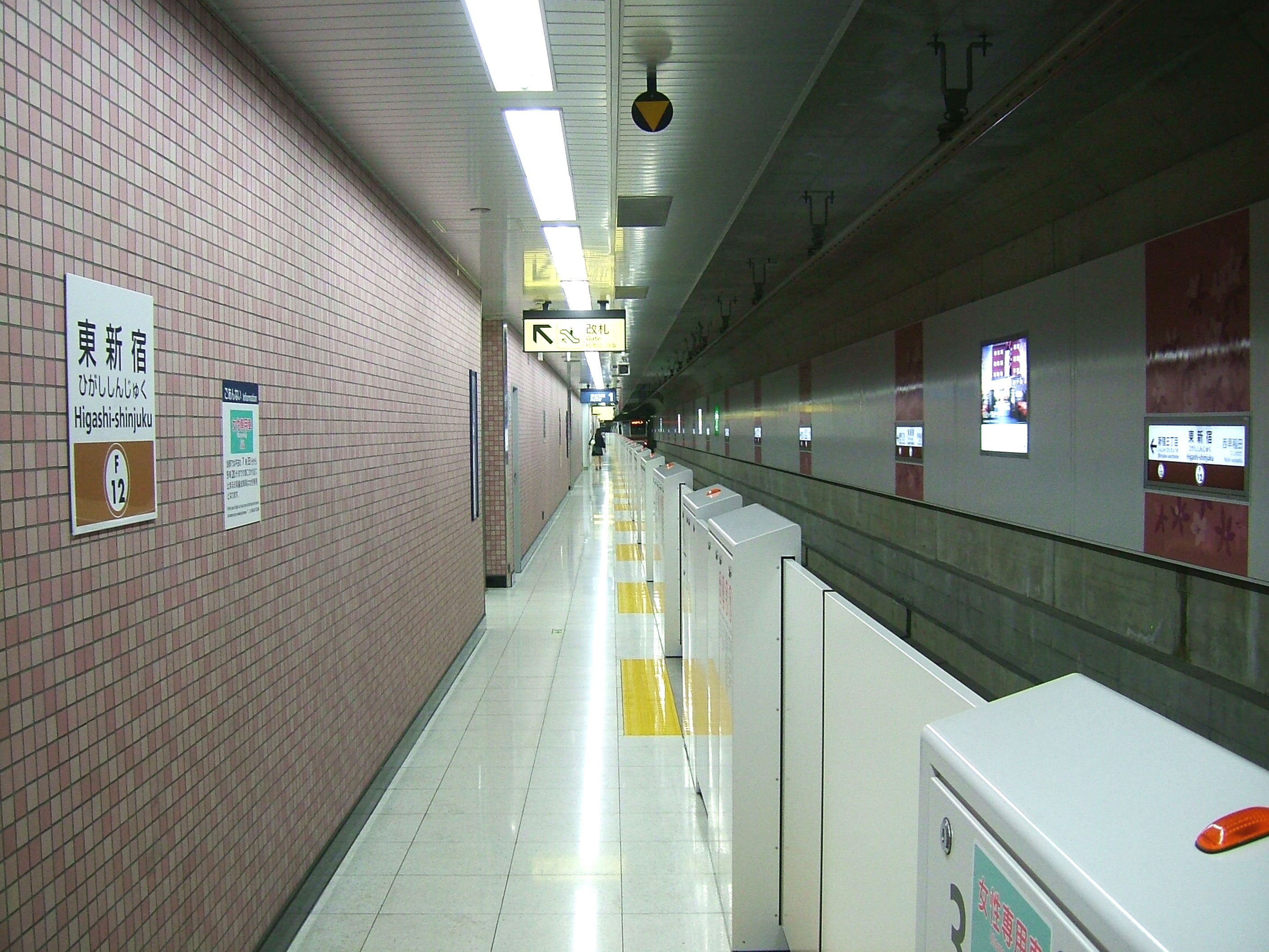 The no.1 platform at Higashi-Shinjuku Station on the Tokyo Metro Fukutoshin Line